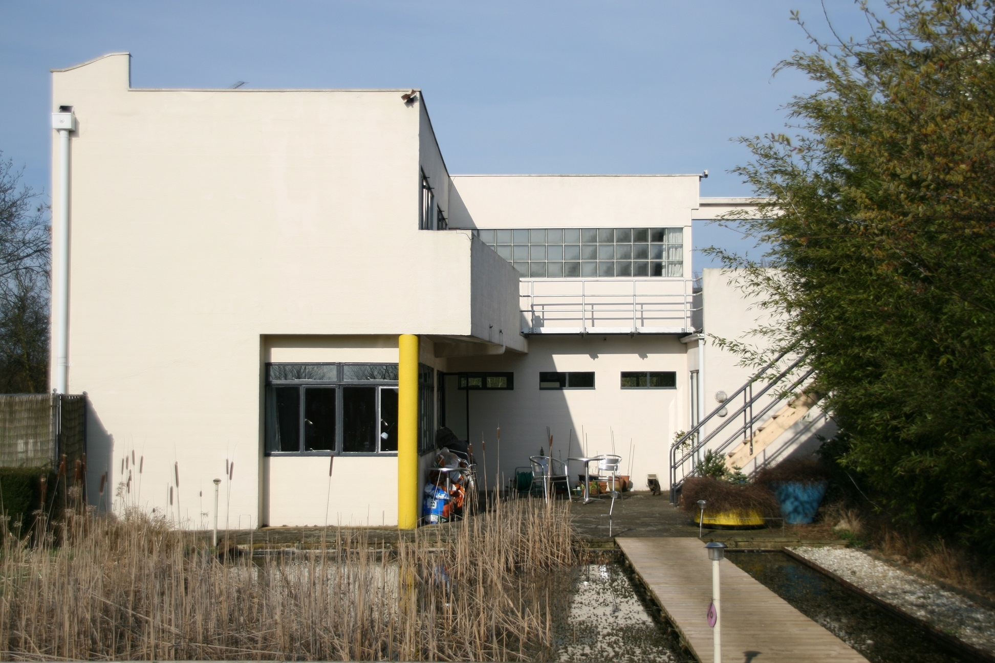 A photograph of the rear of 64 Heath Drive, a house designed by Francis Skinner located in Gidea Park, Essex.